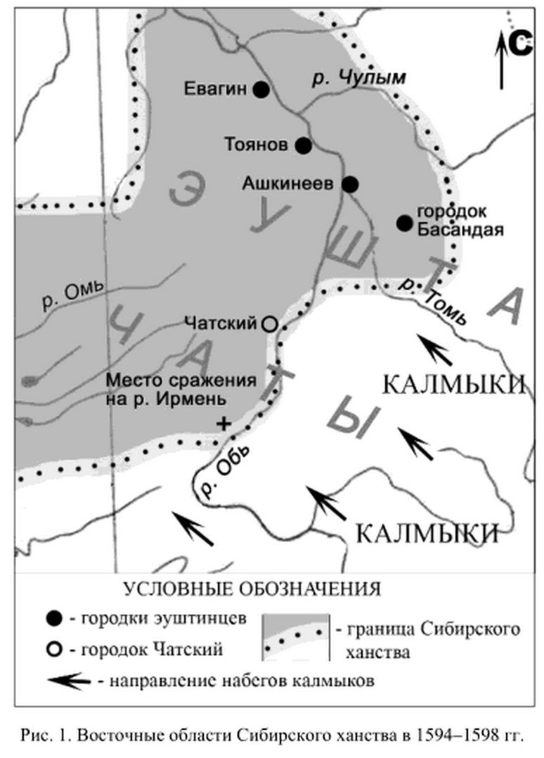 Восточные области Сибирского ханства в 1594-1598 гг.